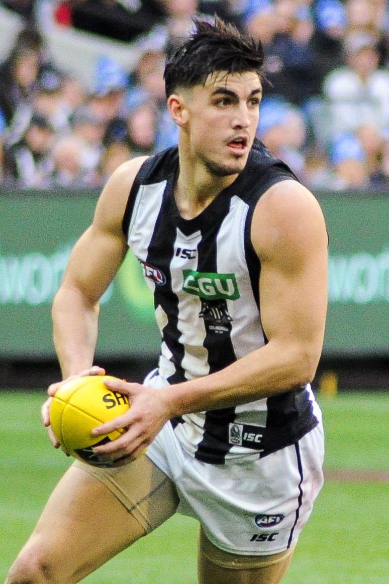 Brayden Maynard during the AFL round twelve match between Melbourne and Collingwood on 12 June 2017 at the Melbourne Cricket Ground in Melbourne, Victoria.